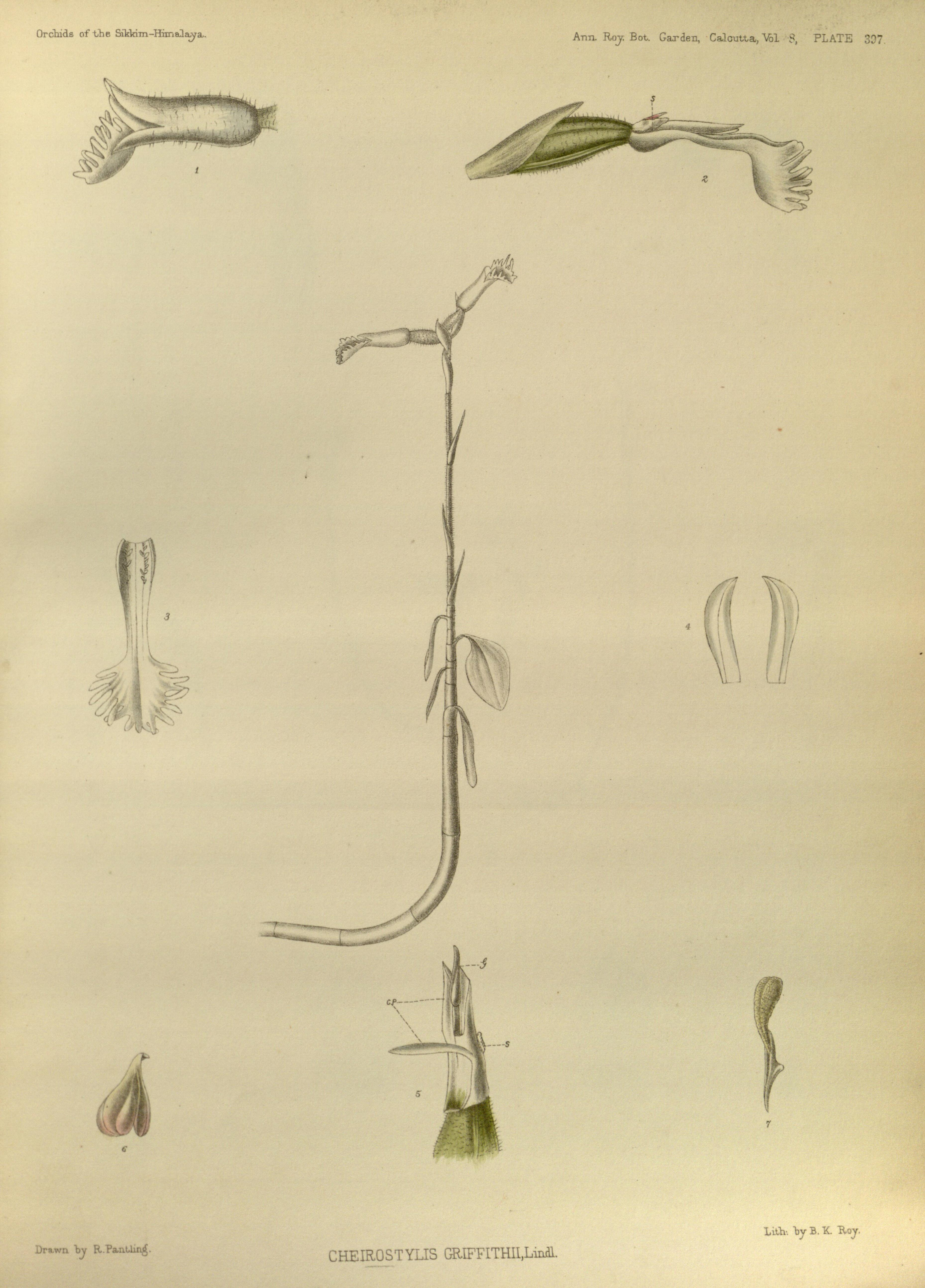 Illustration of Cheirostylis griffithii